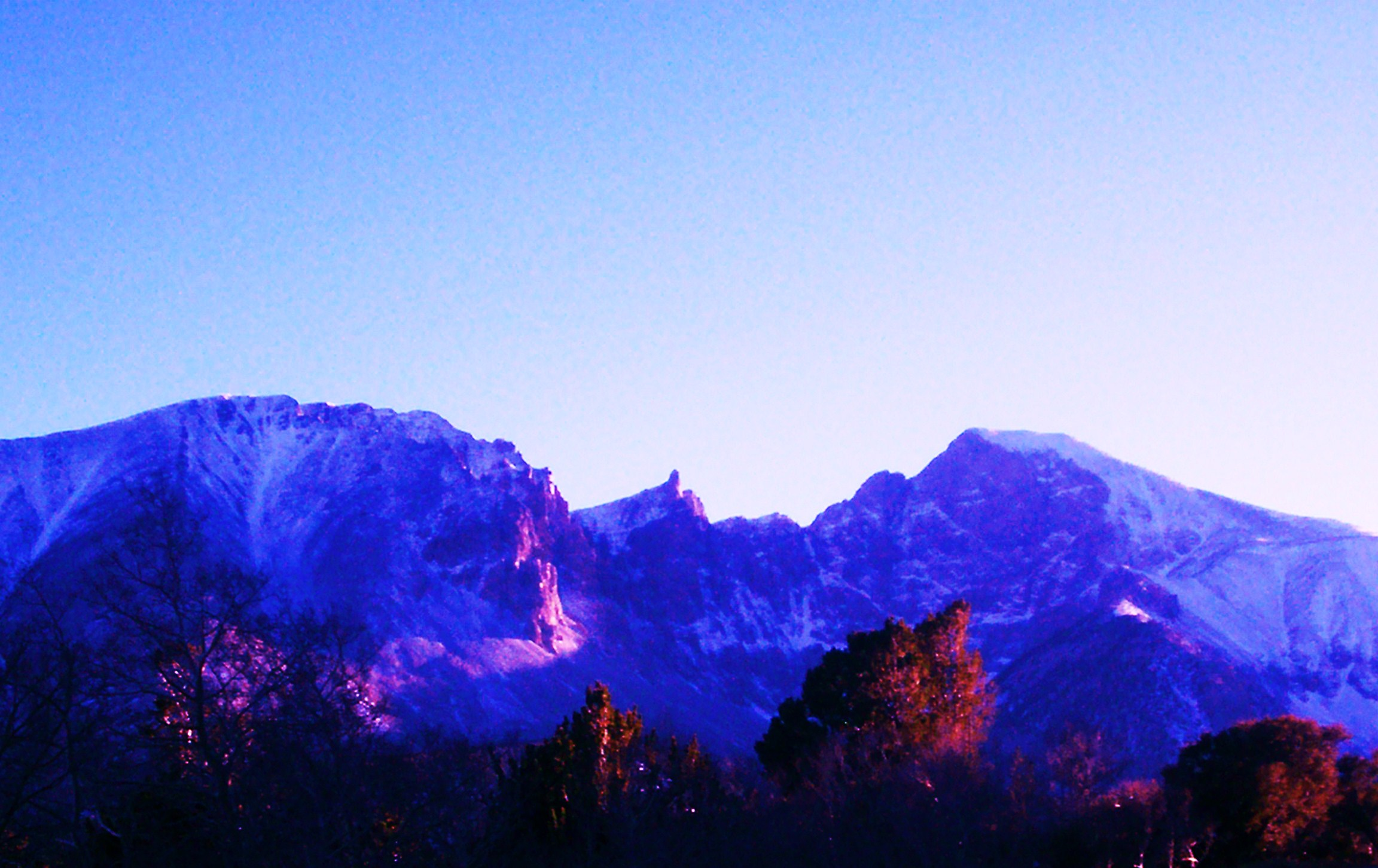 Wheeler Peak, Great Basin National Park, Nevada